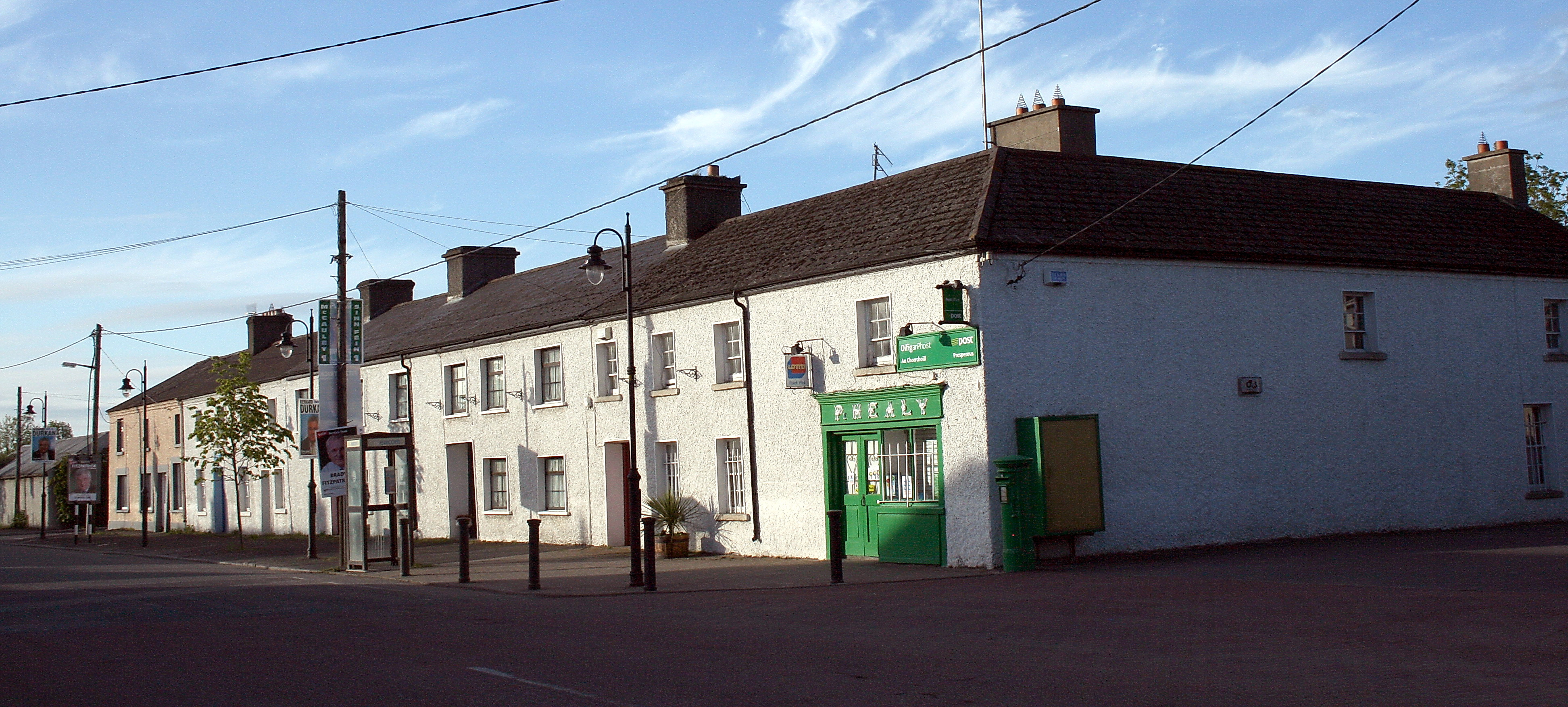 Prosperous, County Kildare, Ireland on the R408 in the older part of town.